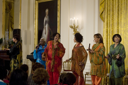 Sweet Honey in the Rock performs at the White House.